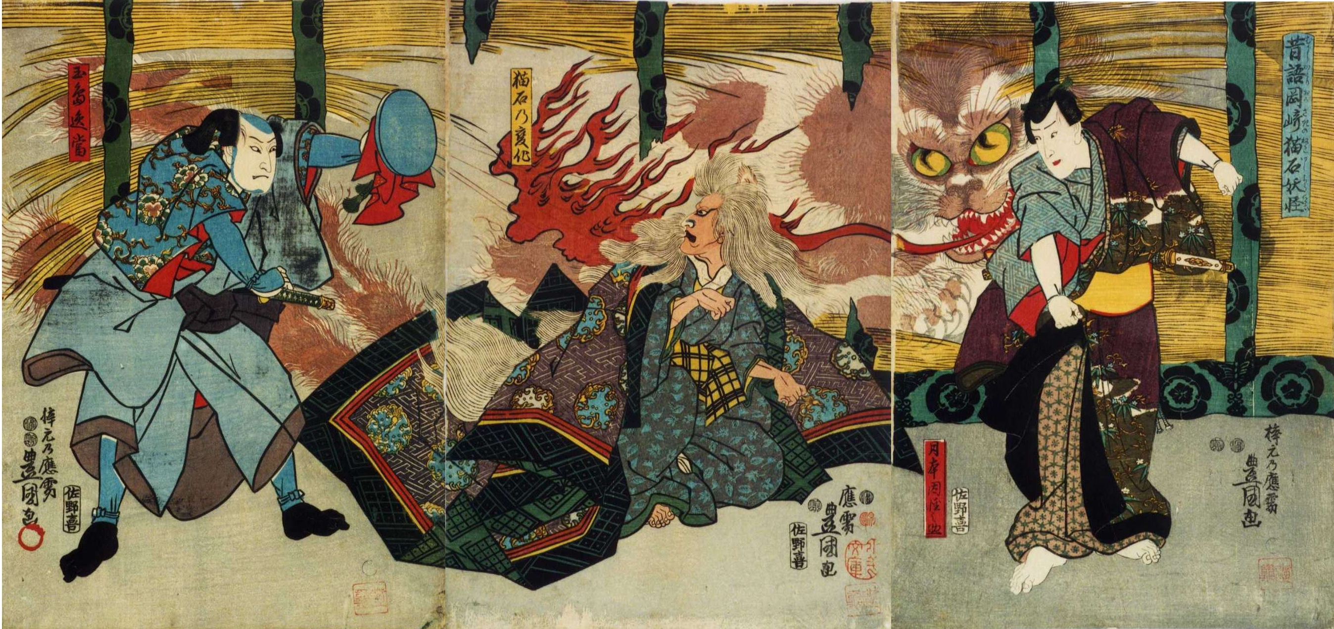 Woodblock print, kabuki triptych by Utagawa Kunisada I (here signed with Toyokuni): the actors (from left) Sawamura Sōjūrō V, Onoe Baijiu (Onoe Kikugorō III), Ichimura Uzaemon XII, play ’Onoe Kikugorō uichidai banashi’, performed at Ichimura theatre in 7/1847